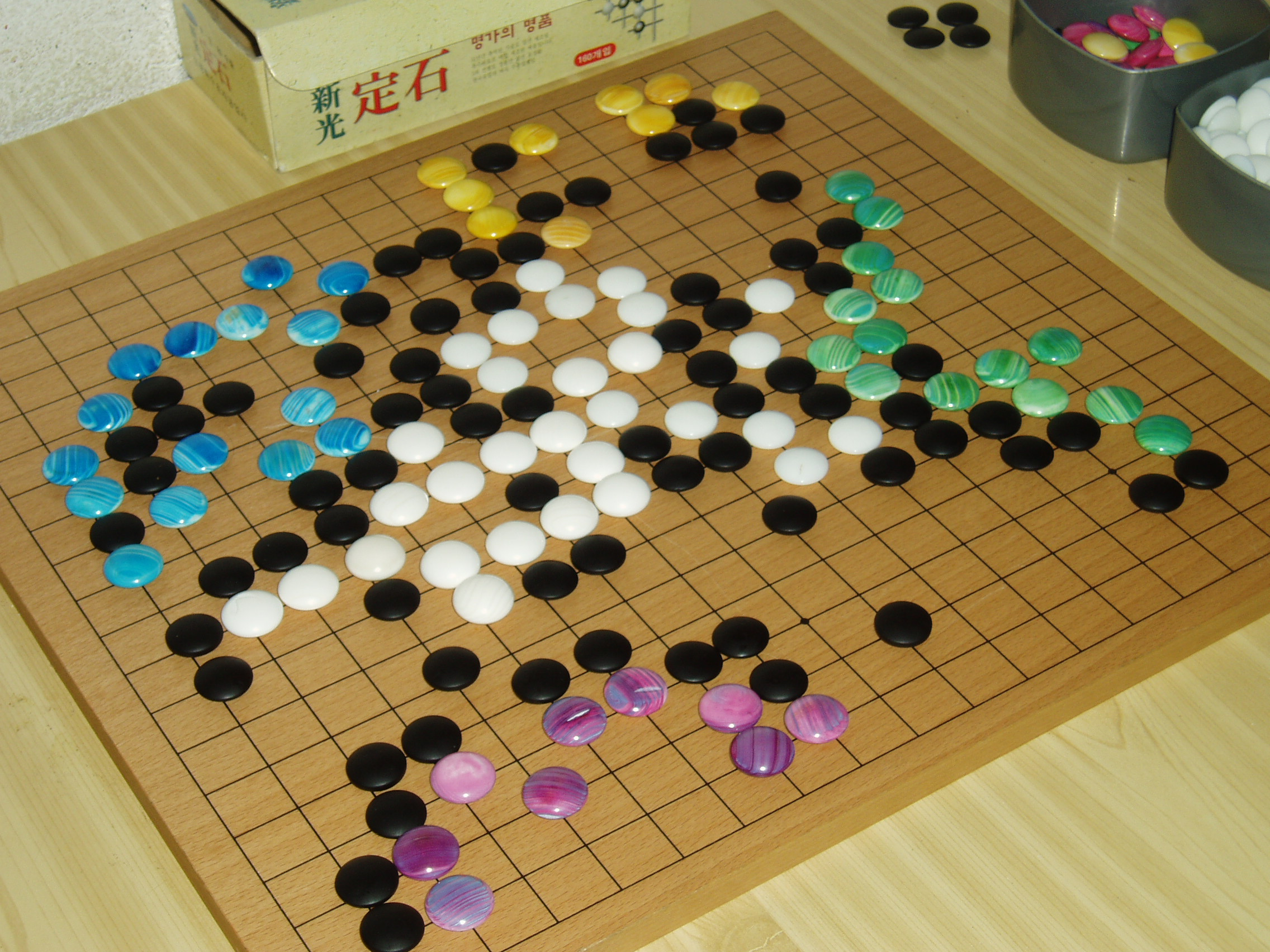 Multi-color Go game at an "I GoFME Cup" tournament. The box next to the board is labeled mostly in Korean, with some Hanja characters, that perhaps state the name of the manufacturer (新光) and the brand name ("定石", i.e. "Joseki")